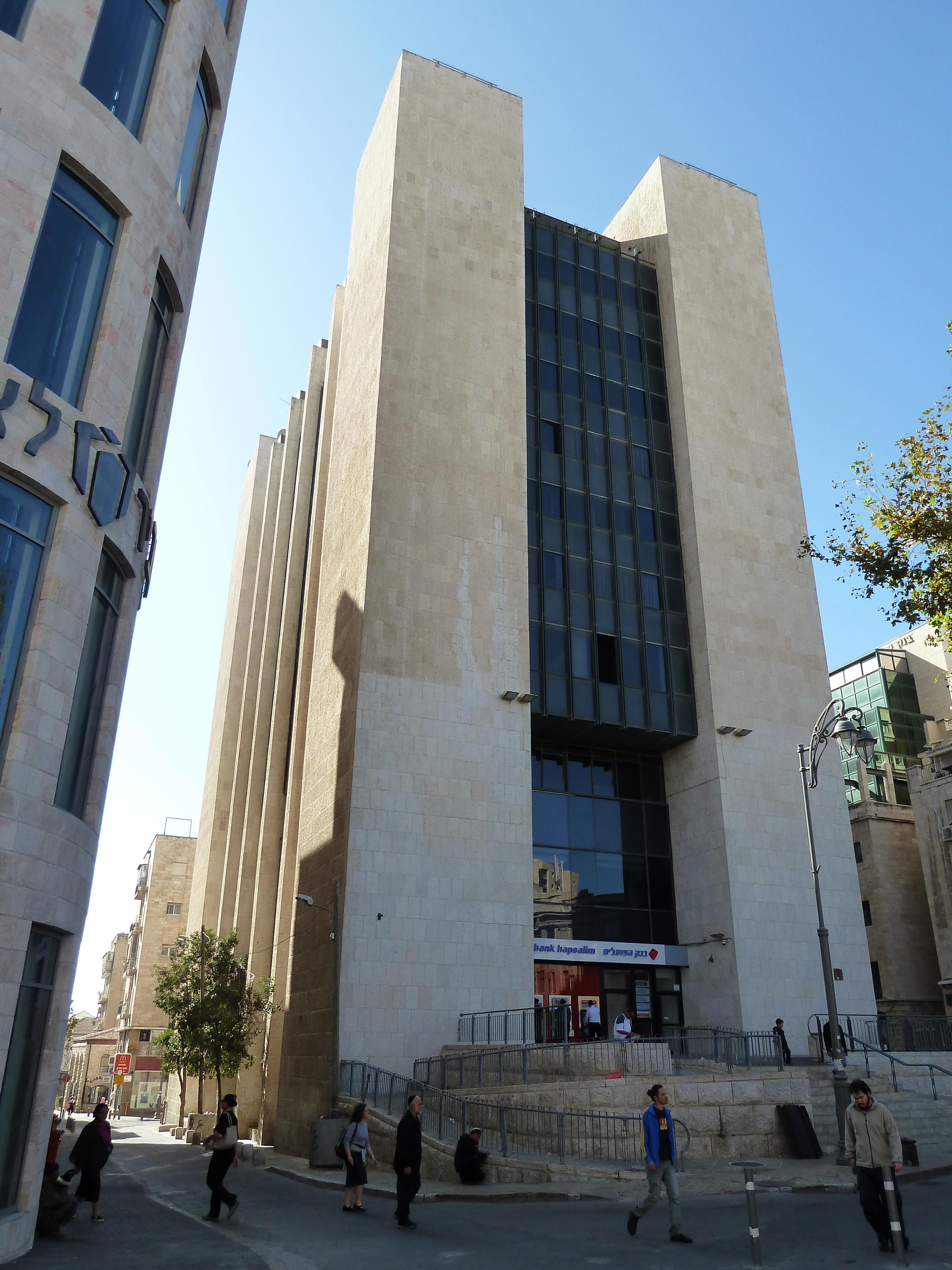 West Jerusalem Zion Square Bank Hapoalim building. At the left, המשביר לצרכן (Hamashbir Lazarchan) Shopping mall. It was opened to the public 10 days ago, on november, 01, 2011.